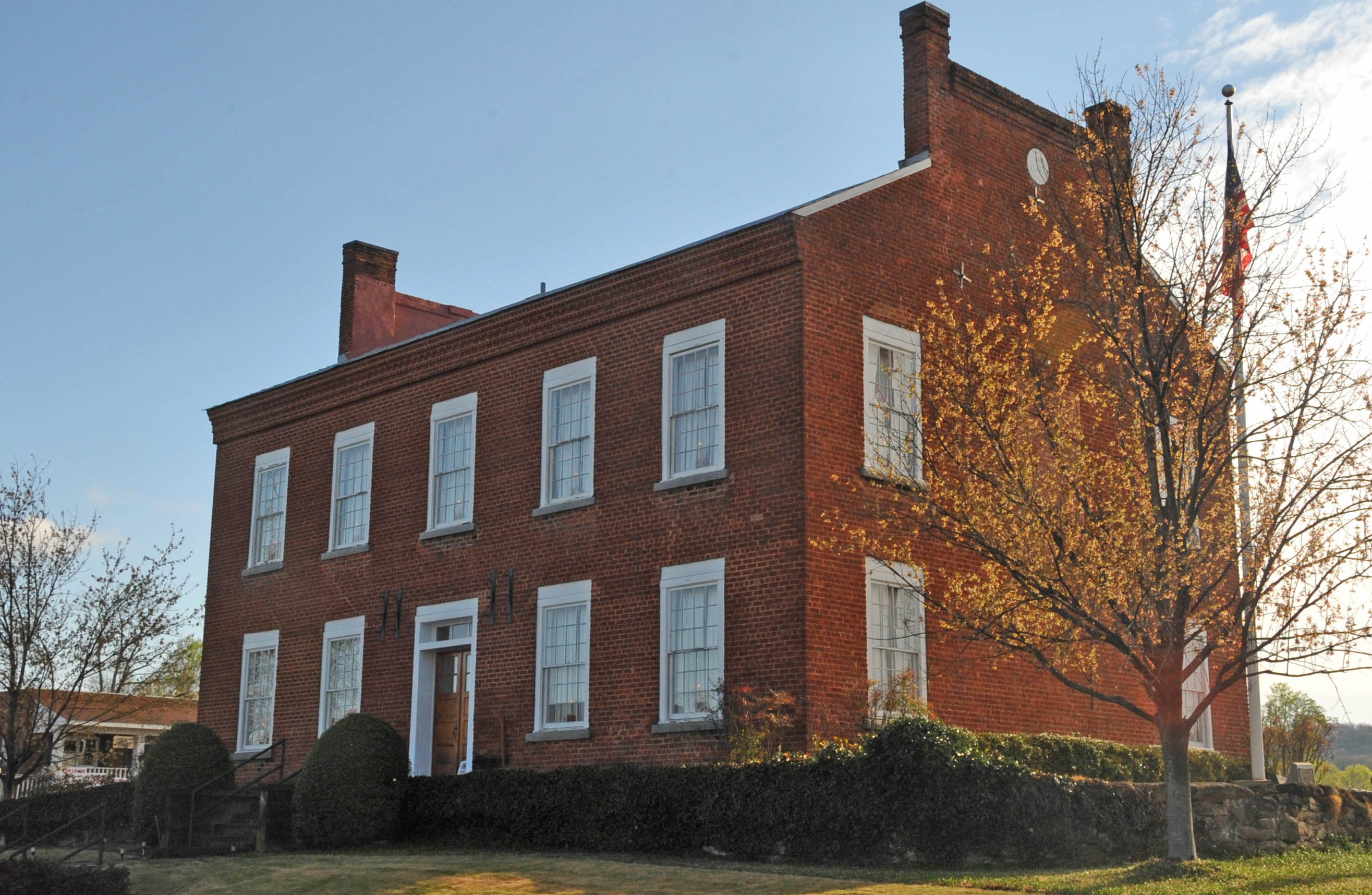 LOCATED ON CLEVELAND SQUARE AND BUILT IN 1859 AND IN USE UNTIL 1962; NOW IS A MUSEUM